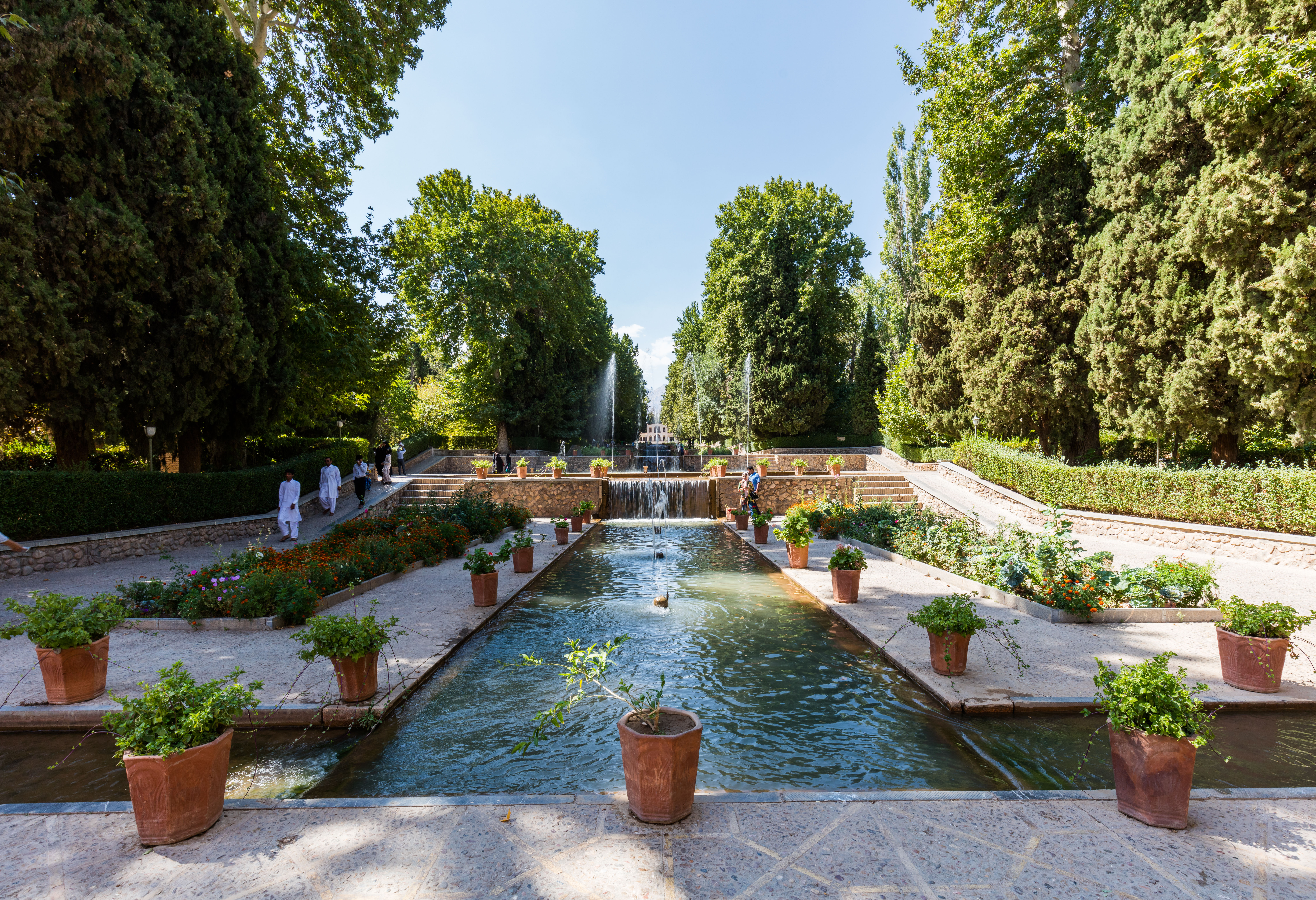 Shazdeh Garden, Mahan, Iran